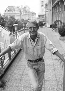 Roland Jaccard